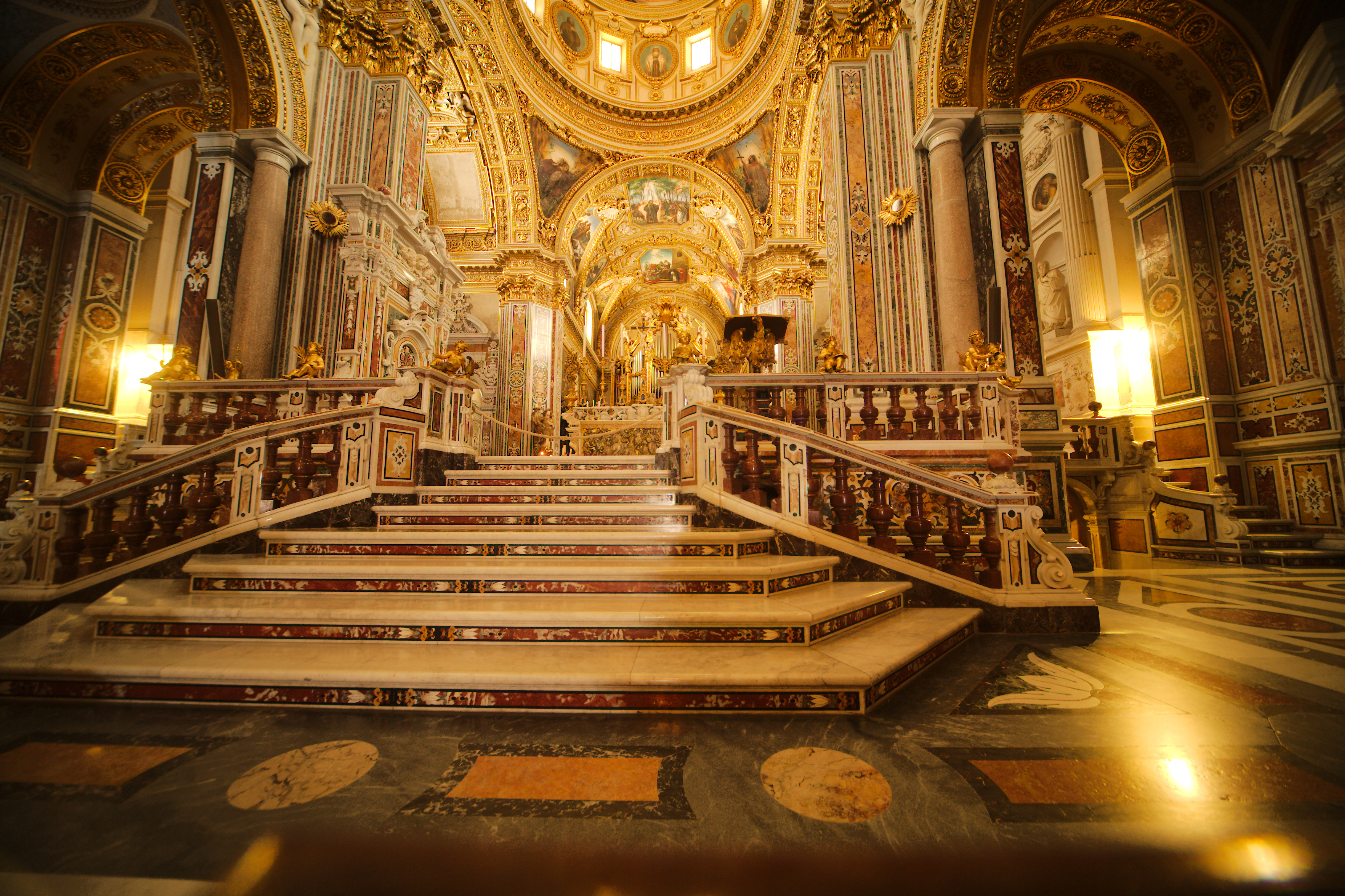 Interior of the Basilica of abbey Monte Cassino